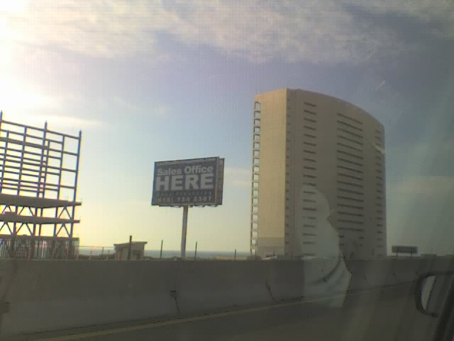 A skyscraper in Playas de Tijuana.